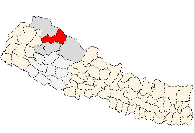 FrenchCarte de localisation dudistrict de Mugu(wp-FR),au Népal (wp-FR).EnglishLocation map ofMugu District(wp-EN),in Nepal (wp-EN).